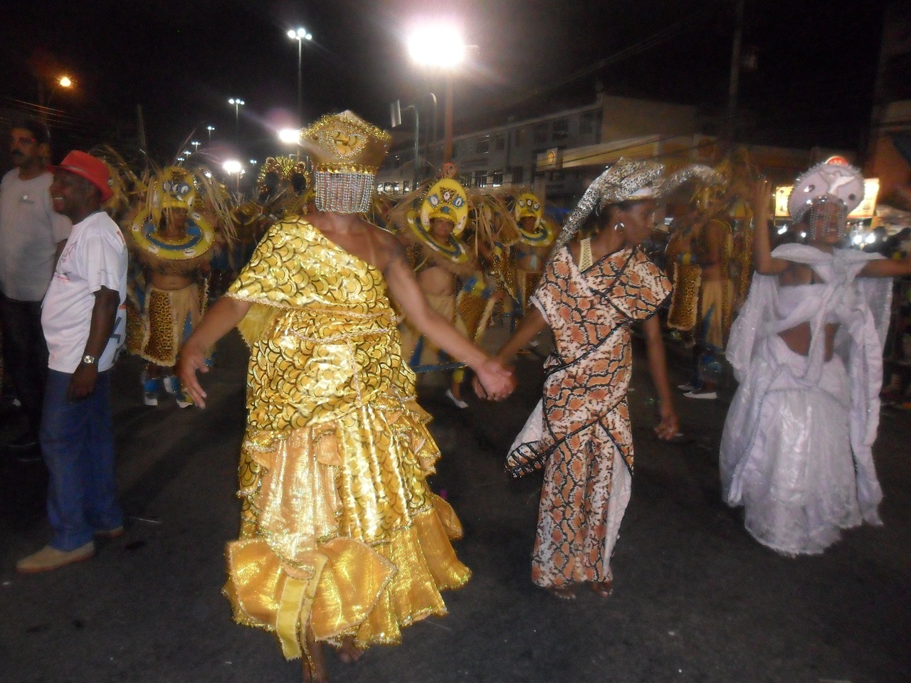 GRES Acadêmicos do Dendê